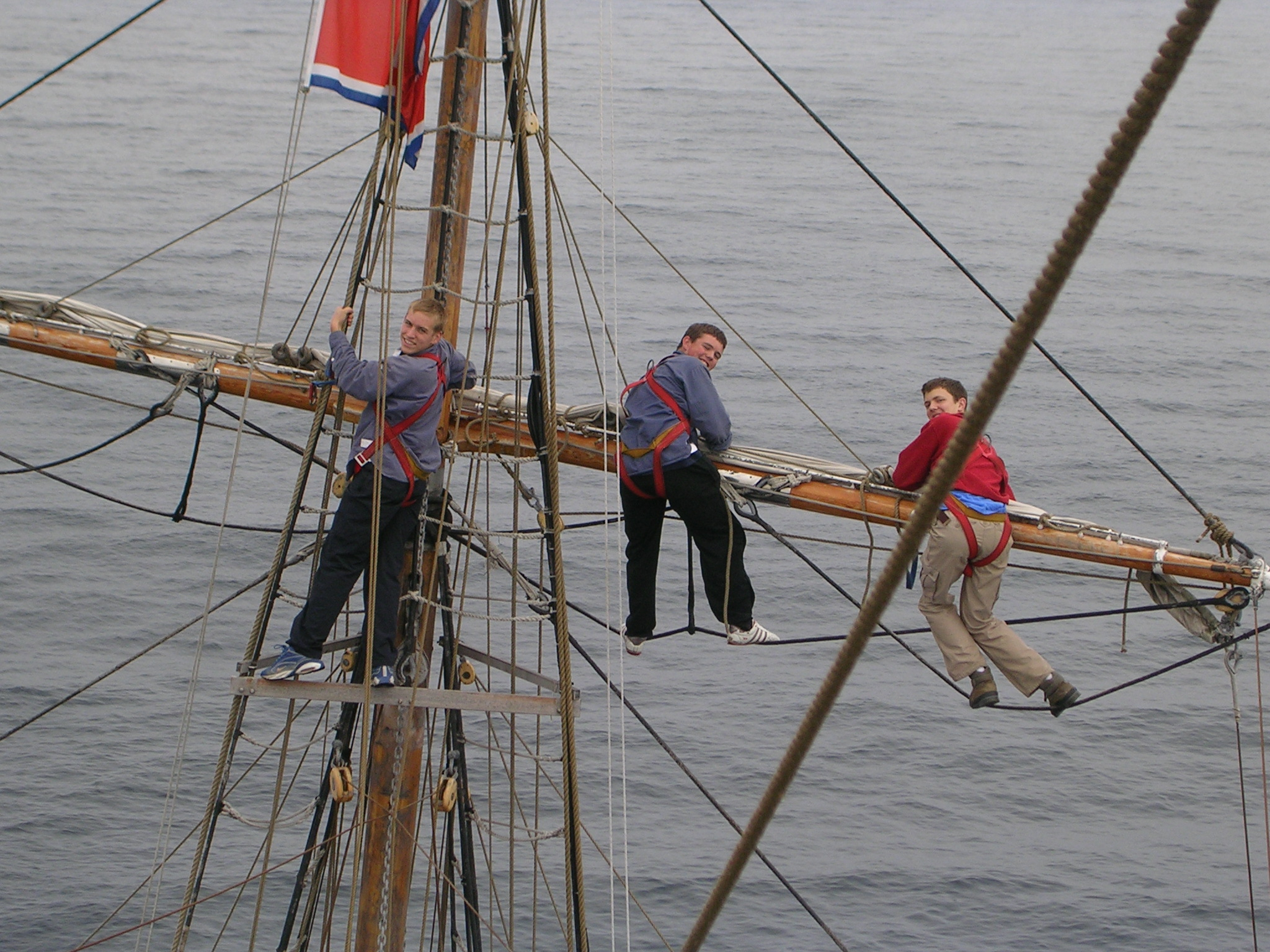 Three Prince William crew out on the fore-royal yard in its lowered position. Taken from the main masthead. Photo by Pete Verdon, GFDL.